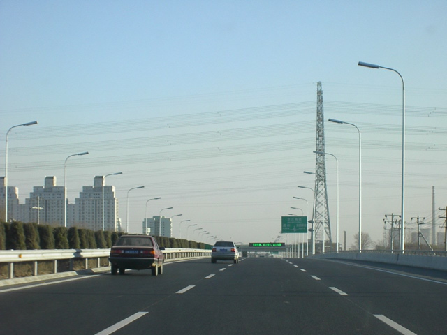 5th Ring Road in Beijing